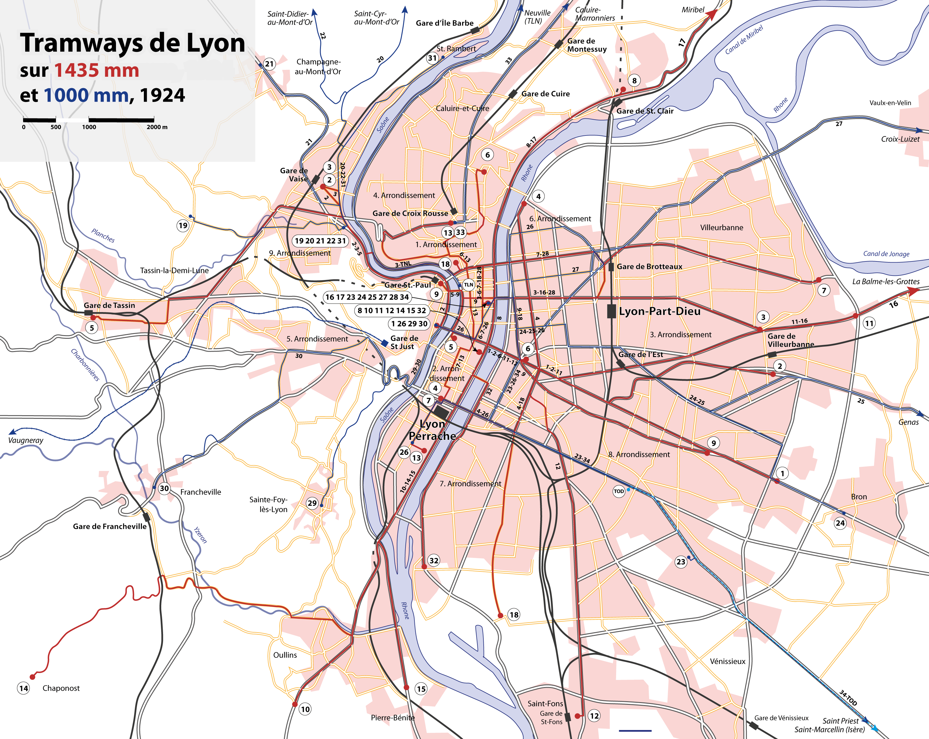 Tramway lines in Lyon, standard track gauge and 1000 mm, 1924